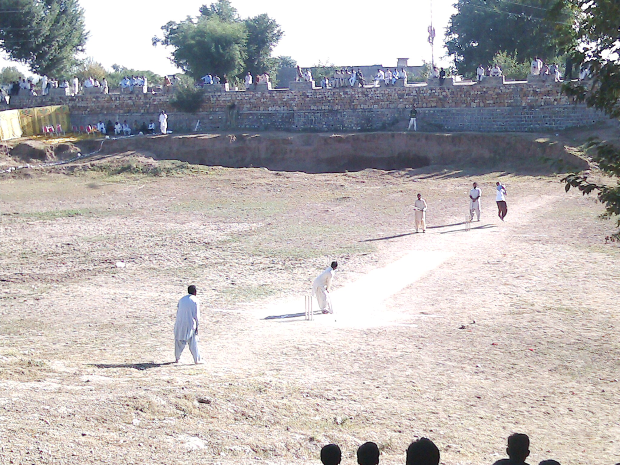 A pool In Danda Shah Bilawal